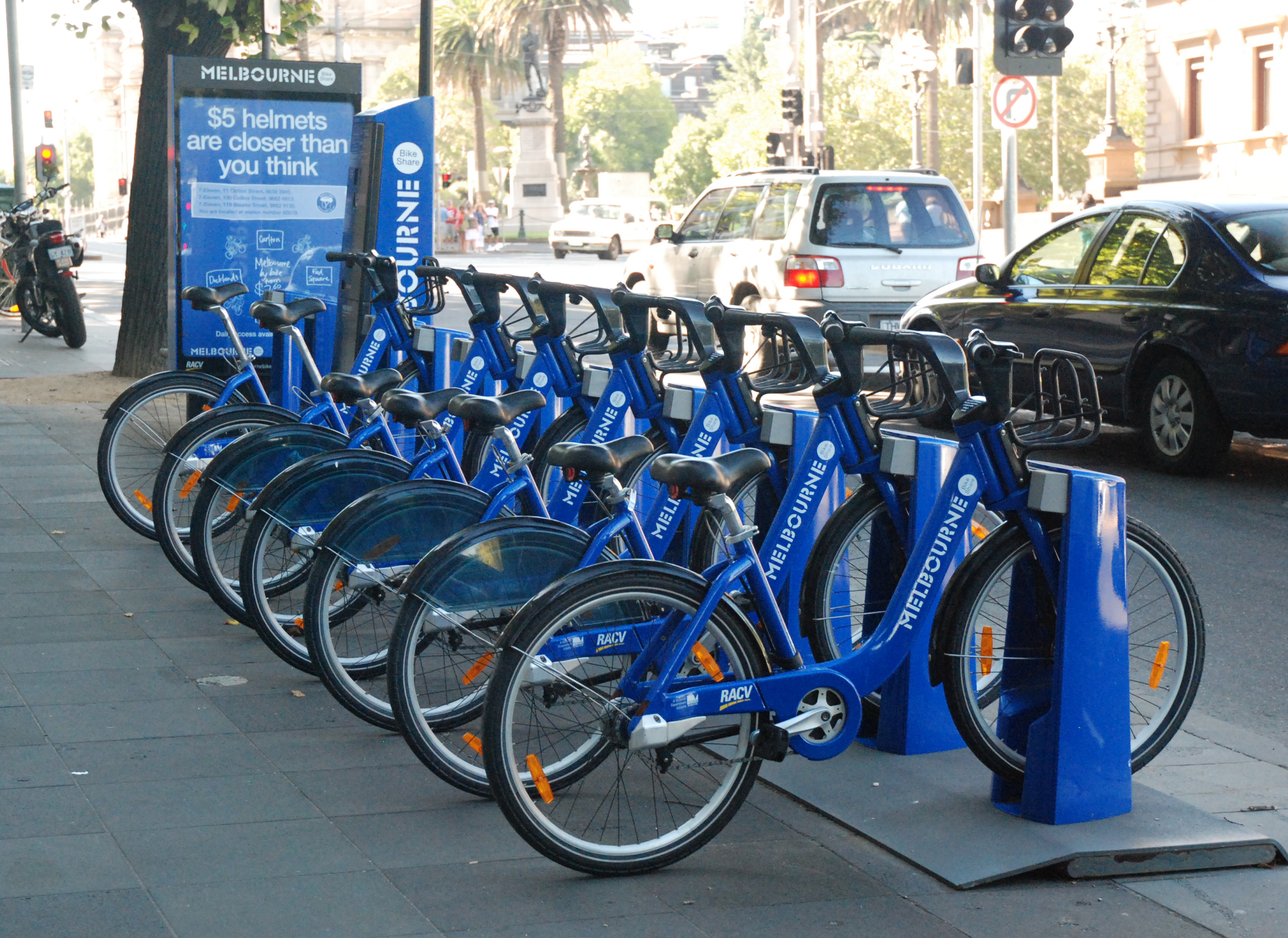 Bicycle sharing system in Melbourne (Australia)